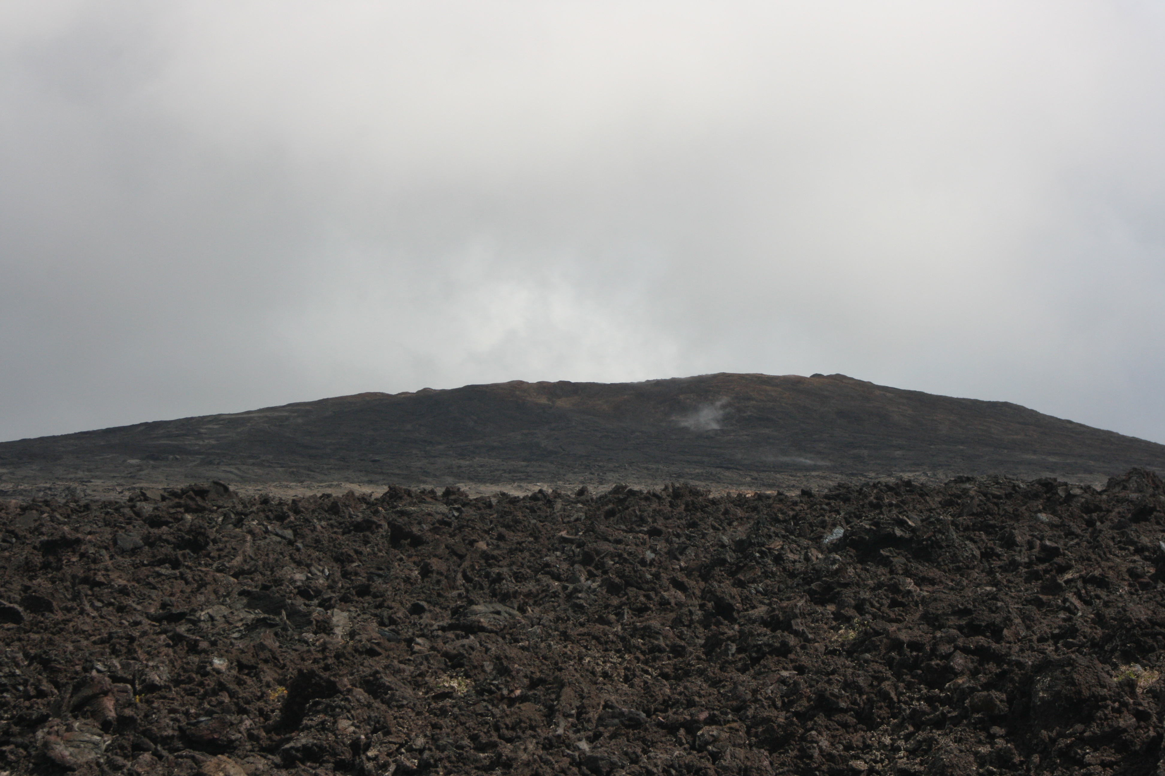 Mauna Ulu, an inactive lava shield on Kilauea volcano's East Rift Zone, formed between 1969 and 1974.